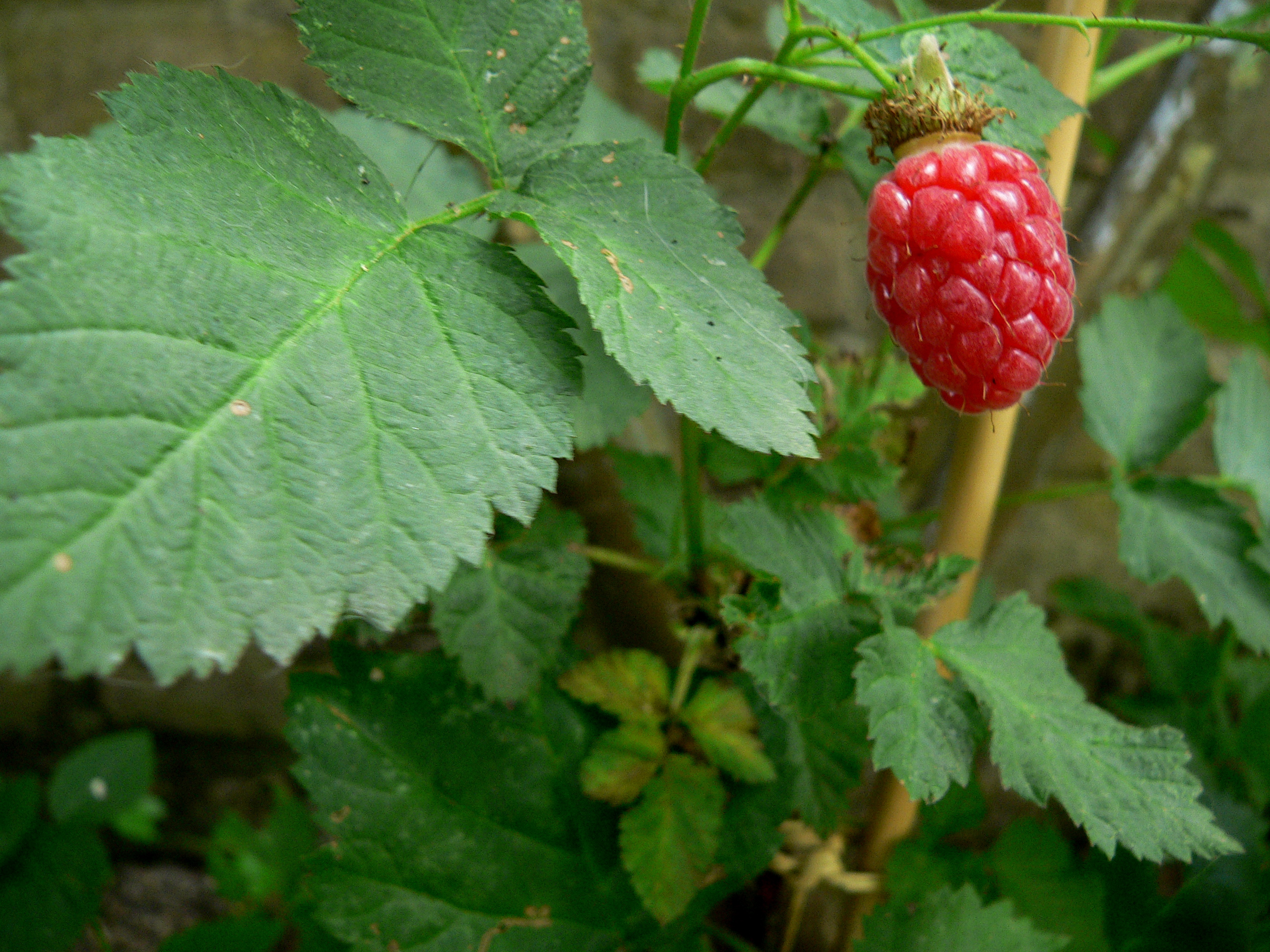 Tayberry